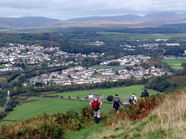 Y Farteg